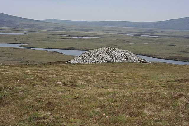 Barpa Langass Langass Barp is the best preserved, best known and most visited chambered cairn in the Uists. I approached it, not from the car park, but from the top of the hill in the opposite direction. This offered me the chance to appreciate the fine view enjoyed by the builders of this large cairn.